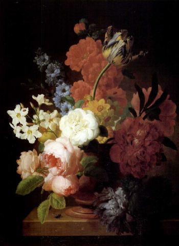 Vase with flowers by Pieter Faes.